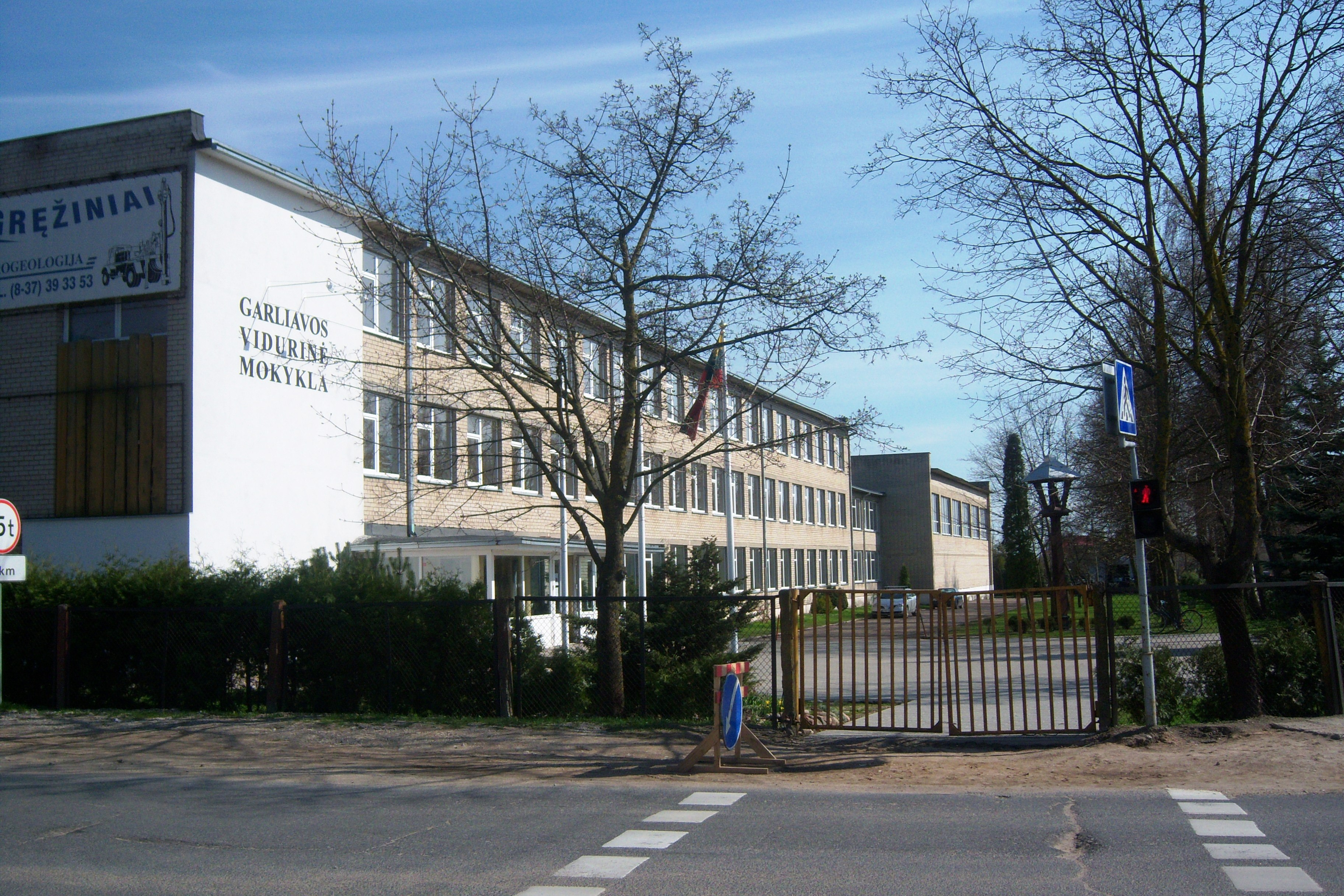 Garliava High school, Kaunas district, Lithuania